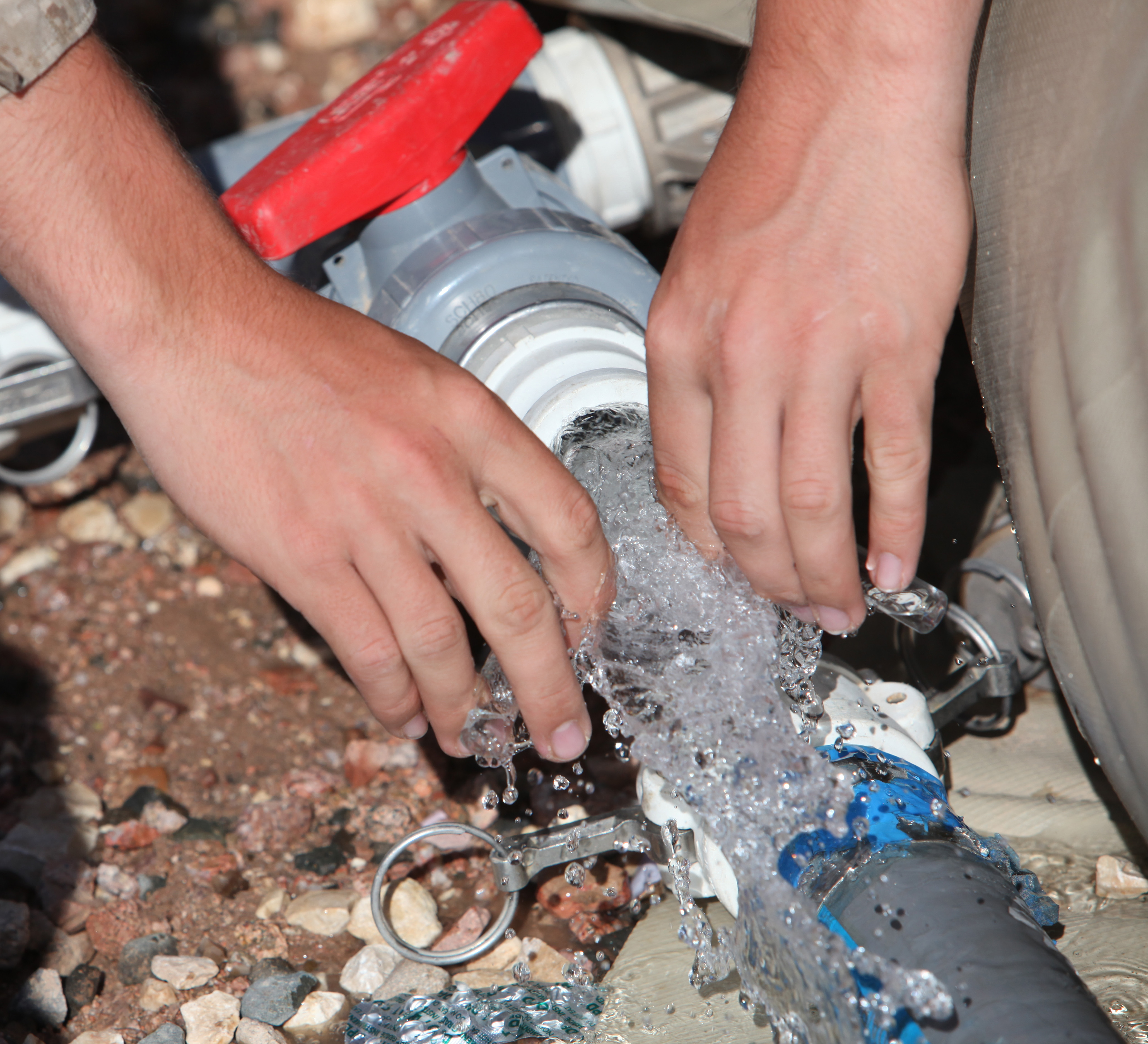 Lance Cpl. Scott Clark, a basic water technician, also known as a Water Dog, takes samples of the purified water for a routine levels test, in order to make sure the chemicals to purify the water have done their job. Water Dogs produce clean, drinkable water for the 24th Marine Expeditionary Unit in support of Exercise Eager Lion 12.